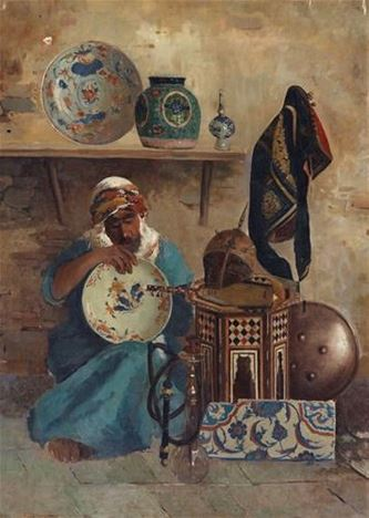 Antique Dealer